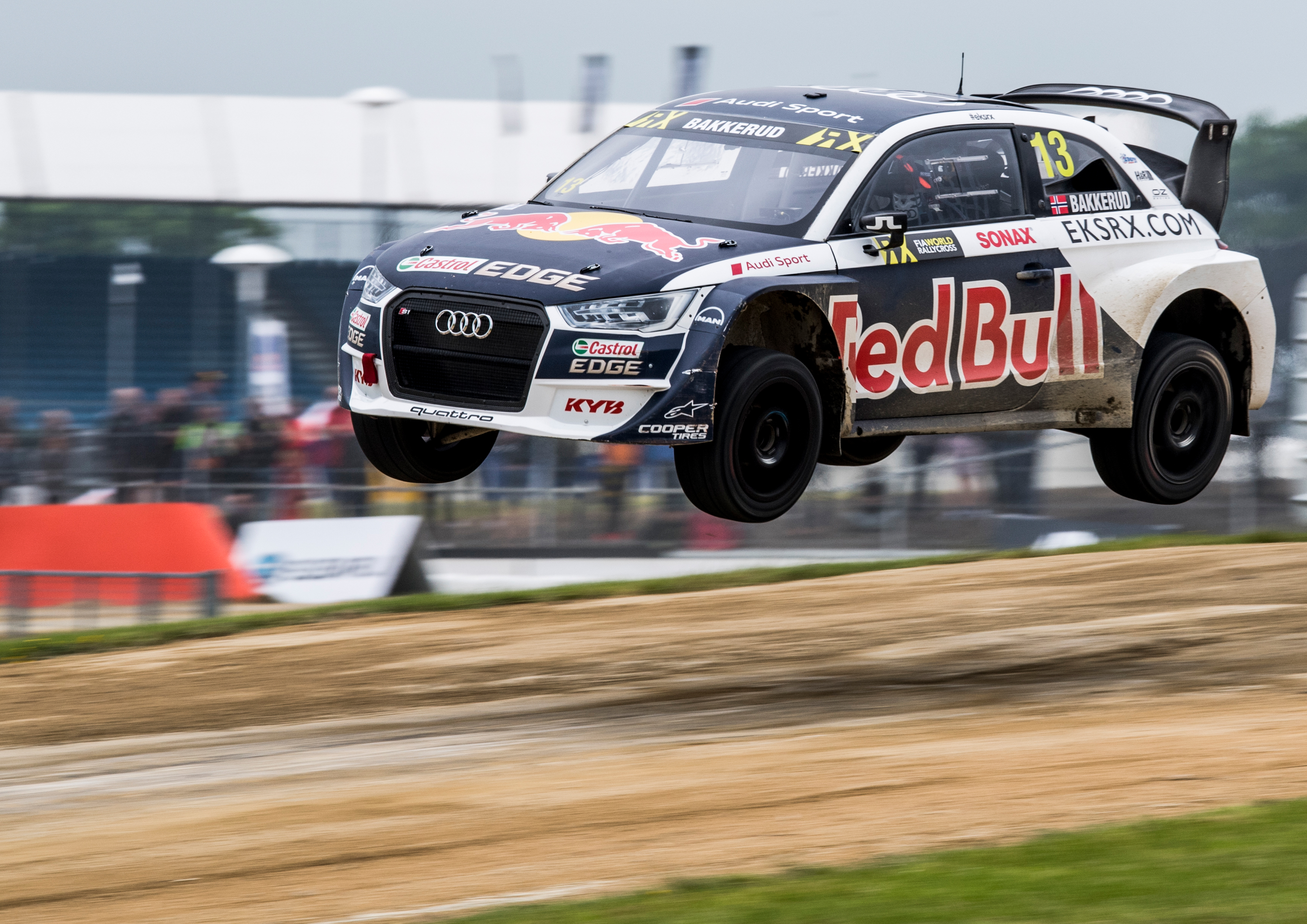 2018 FIA World Rallycross Championship // Round 4, Silverstone, Great Britain // Credit: EKS Audi Sport